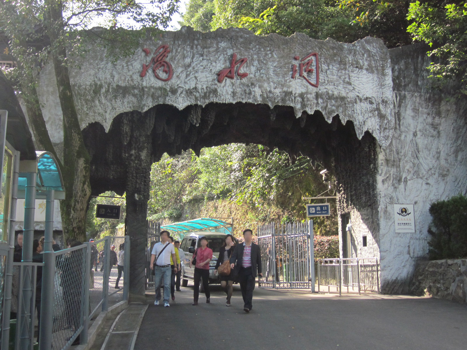 DiShui Hole